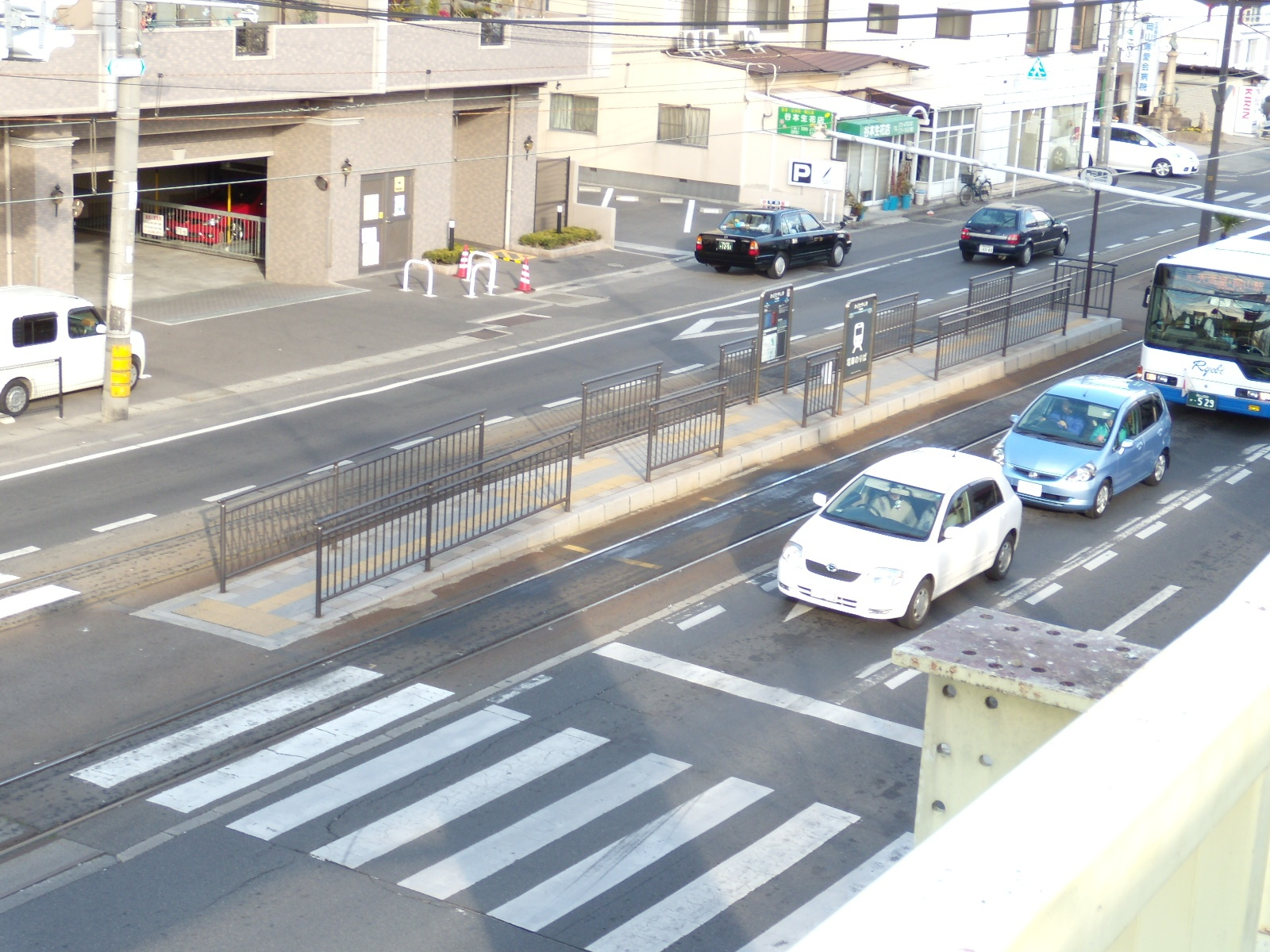 Okayama Electric Tramway Kadoytayashiki Station (Okayama prefectural road No.28)